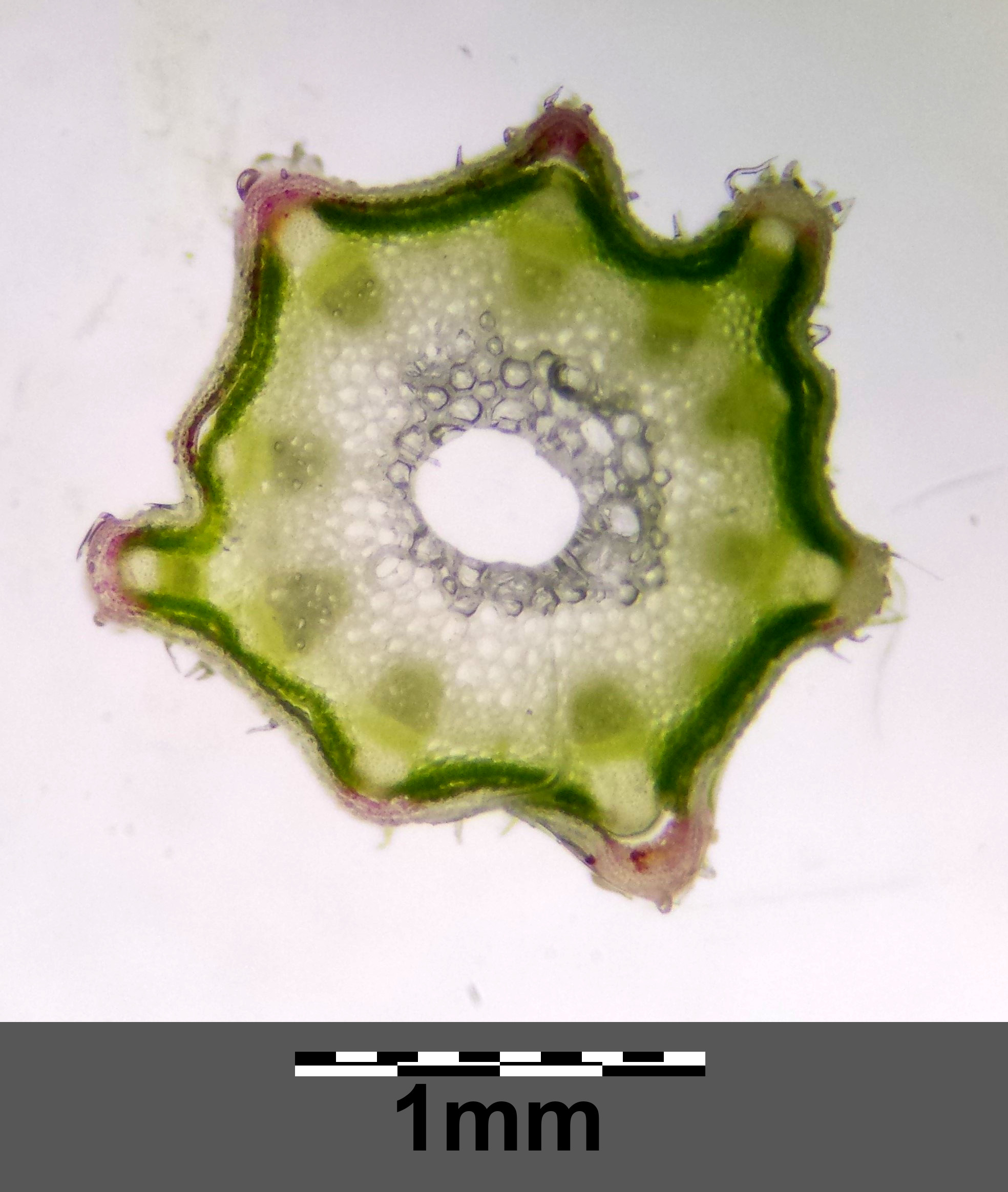 Polygonal stipe (sliced) Taxonym: Vicia grandiflora "subsp." sordida ss Fischer et al. EfÖLS 2008 ISBN 978-3-85474-187-9 Location: abandoned marshalling-yard Breitenlee, Vienna-Donaustadt - ca. 160 m a.s.l. Habitat: semi-dry grassland